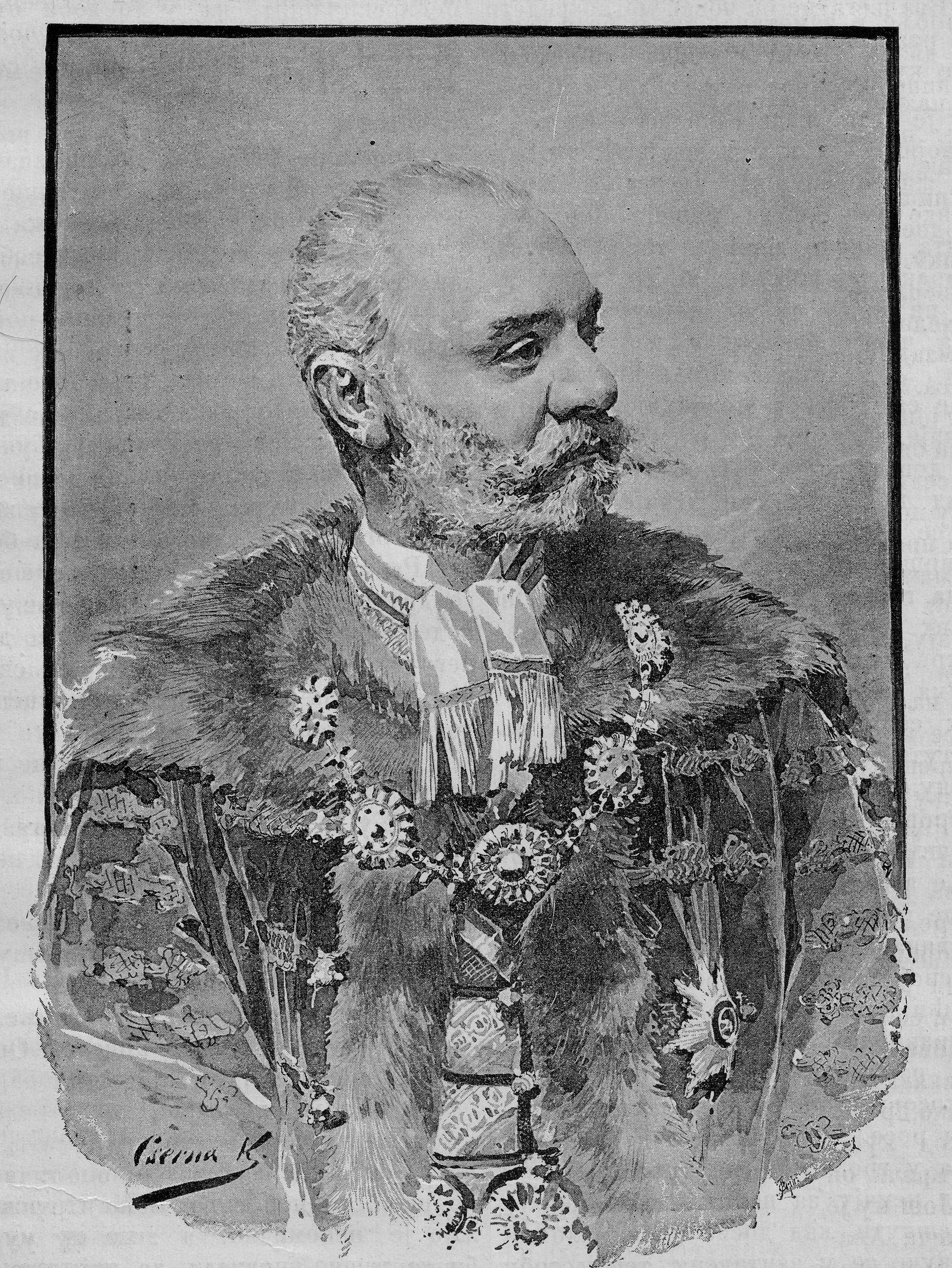 Baron Teodor (Fedor) Nikolić of Rudna (1836-1903), a Serbian nobleman. Taken from the 1891 edition of the calendar Orao. Srpski (latinica): Baron Teodor (Fedor) Nikolić od Rudne (1836-1903), srpski plemić. Preuzeto iz izdanja kalendara Orao za 1891. godinu.